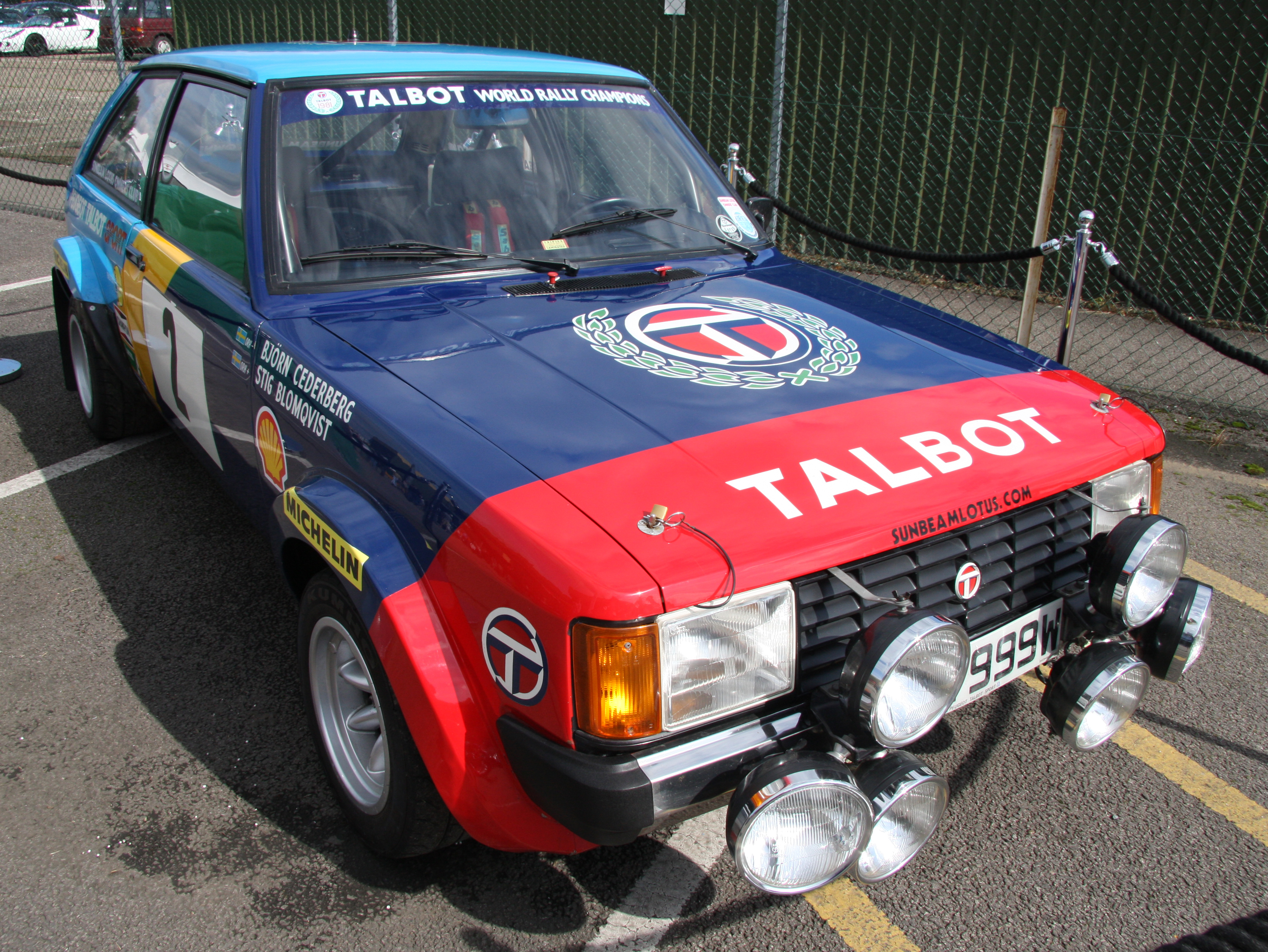 Group 2 World Championship rally car Lotus 60th Celebration